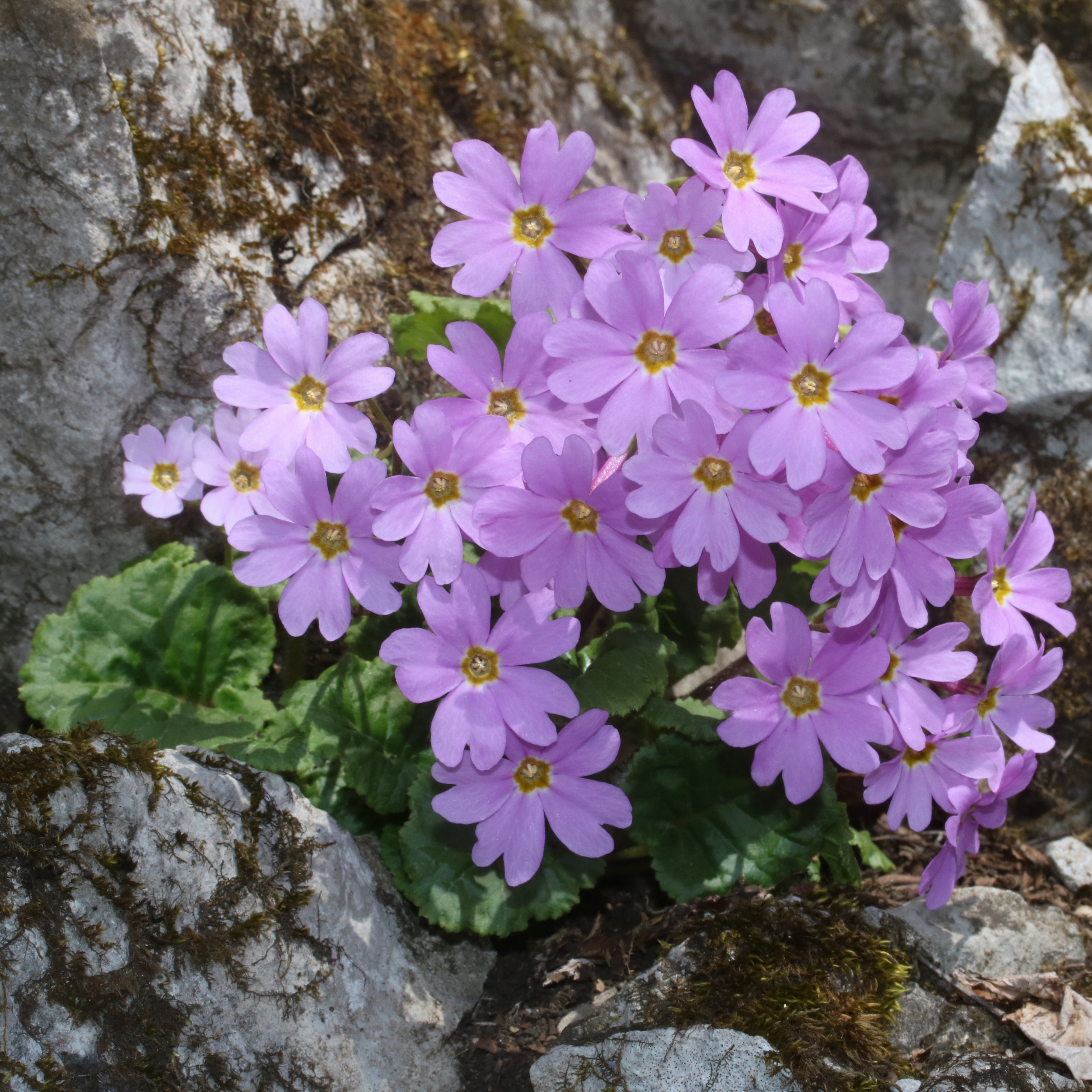 Primula tosaensis in Mount Funabuse, Yamagata, Gifu Prefecture, Japan.